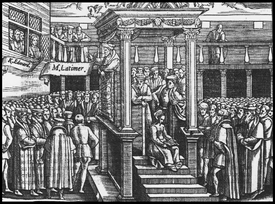 Hugh Latimer preaching to King Edward VI of England, a woodcut in John Foxe's Acts and Monuments, better known as Foxe's English Martyrs. By the time this book was published in 1563, Edward VI was revered as a pious patron of the English Reformation, a new Josiah who loved nothing better than to hear sermons, during which he often took notes. He is depicted here listening from a gallery to a sermon by Bishop Hugh Latimer, who, along with Thomas Cranmer and Nicholas Ridley, was a key figure in the development of Protestantism in Edward's reign and, like them, a martyr under Edward's Catholic successor Queen Mary I. Historian Diarmaid MacCulloch stresses the accuracy of this image of Edward, though fellow historian Jennifer Loach cautions against too ready an acceptance of the portrayal of Edward by Reformation propagandists such as Foxe, who called Edward a "godly imp". The pulpit in the Privy Garden at the Palace of Whitehall had been built by Henry VIII in an enclosure which continued to be used for animal-baiting and wrestling. The king's pulpit became the most fashionable preaching place in London, provoking Latimer to complain: "Surely it is an ill misorder that folk shall be walking up and down in the sermon-time, as I have seen in the place this Lent: and there shall be such huzzing and buzzing in the preacher's ear that it maketh him oftentimes to forget his matter". (References: Diarmaid MacCulloch, The Boy King: Edward VI and the Protestant Reformation, Berkeley: University of California Press, 2002, pp. 21–25, 107; Jennifer Loach, Edward VI, New Haven (CT): Yale University Press, 1999, pp. 180–81.)